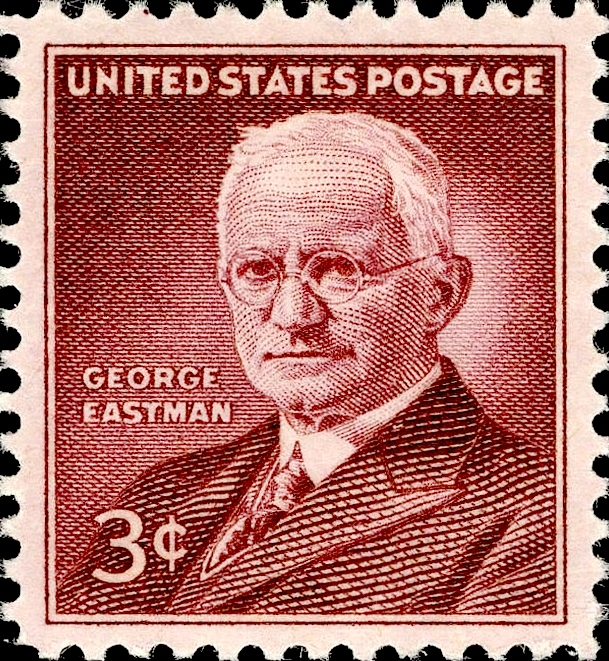 Image of George Eastman stamp, 3-cents, 1954 issue